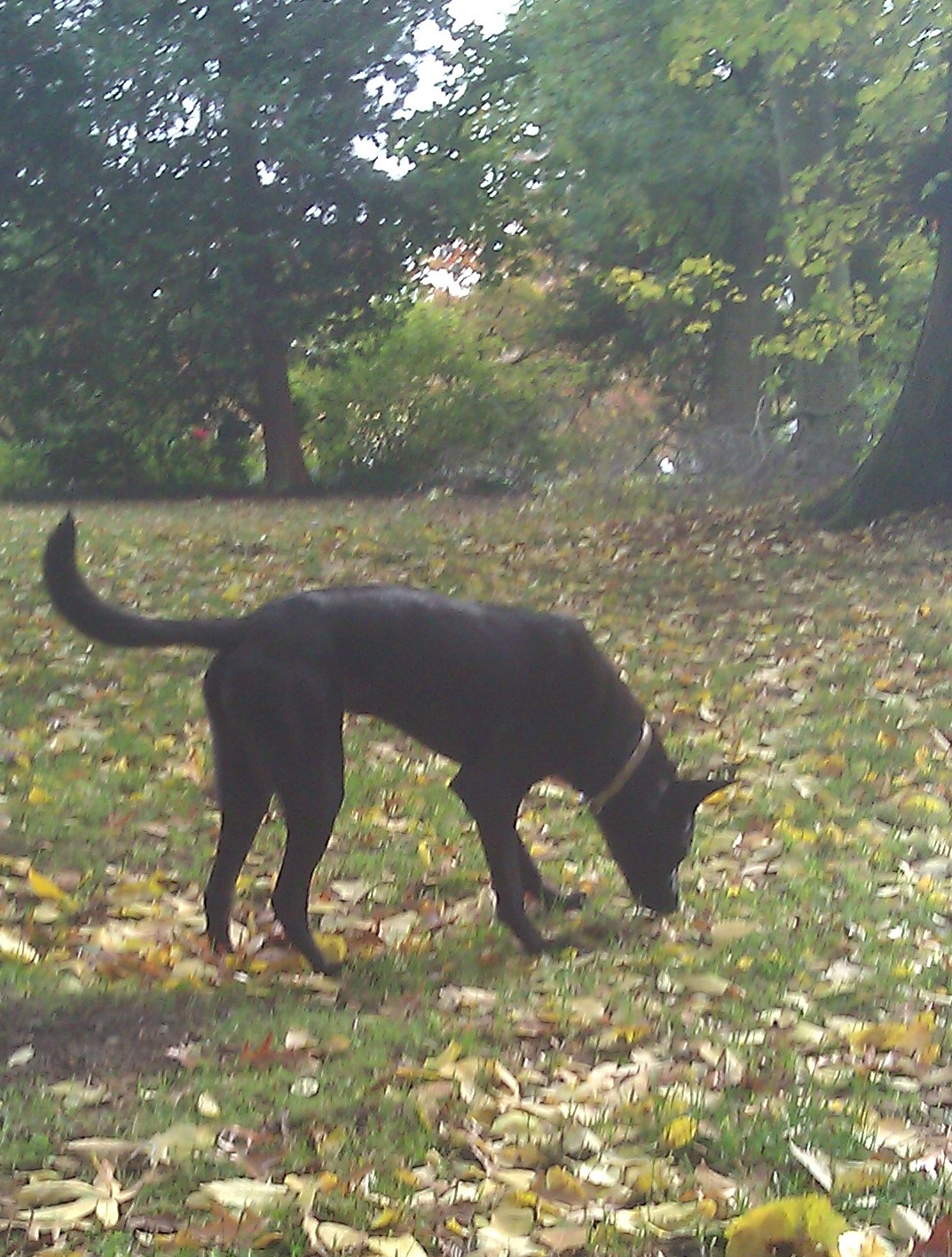 This is a rescue Taiwan dog in Seattle, WA.